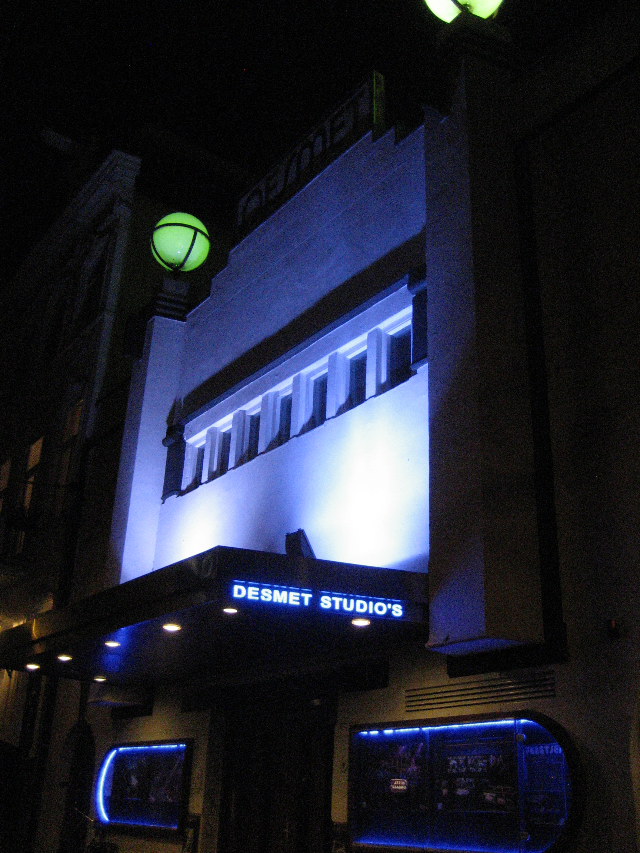 Desmet Studio's, Plantage Middelweg 4a, Amsterdam (The Netherlands)